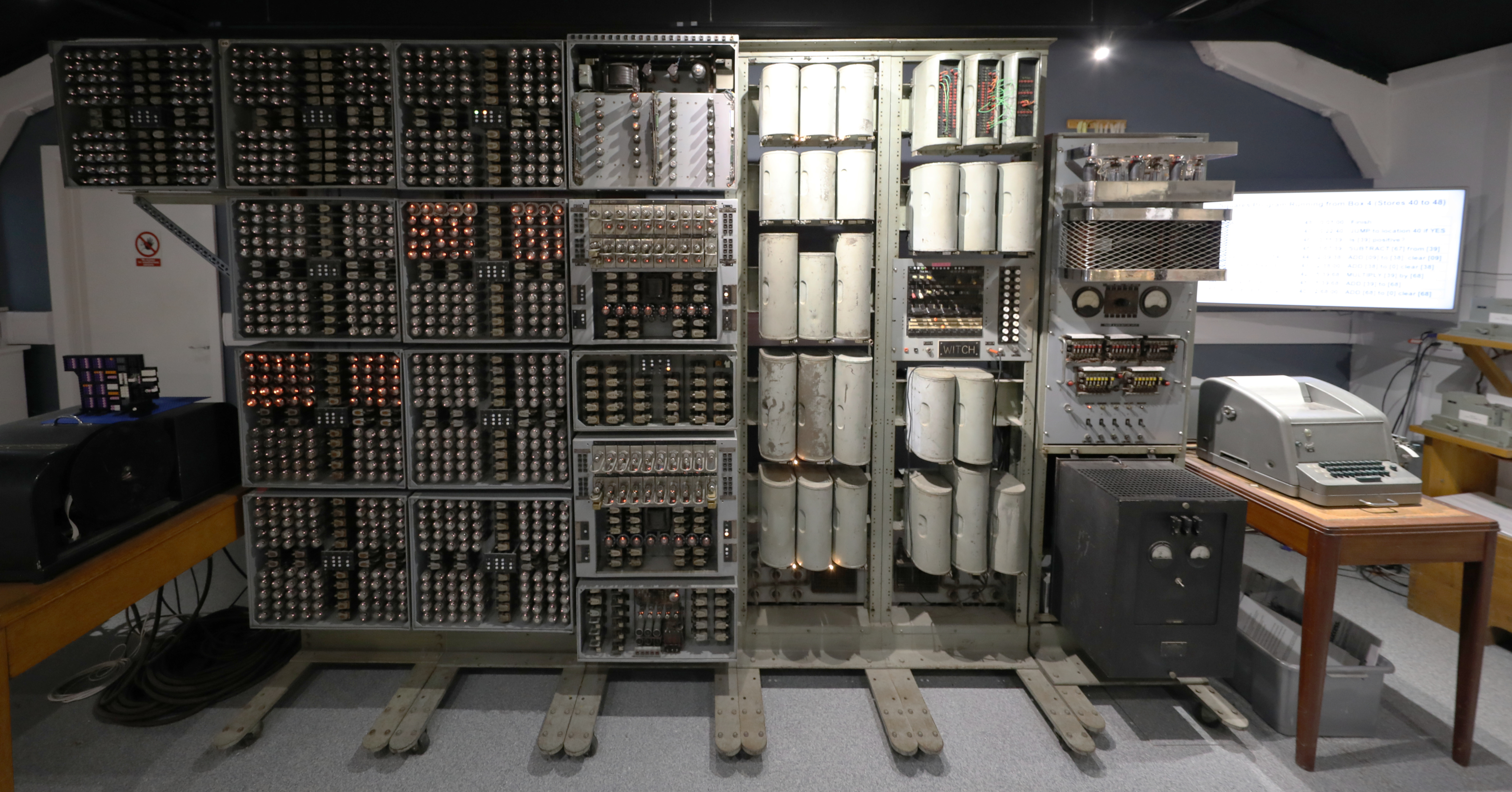 Photo of Harwell Dekatron Computer running from the front.